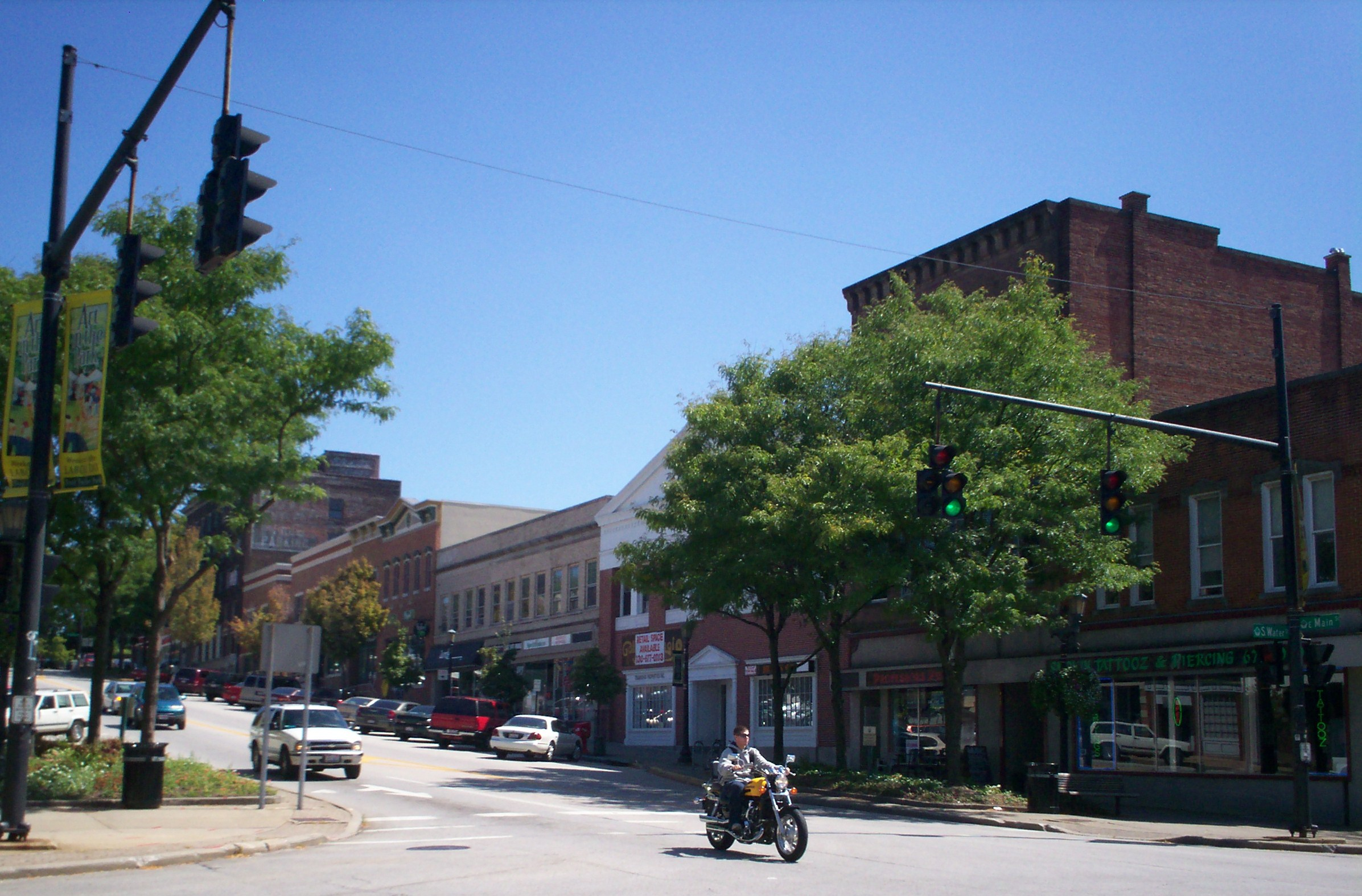 Downtown Kent, Ohio looking east up East Main Street.